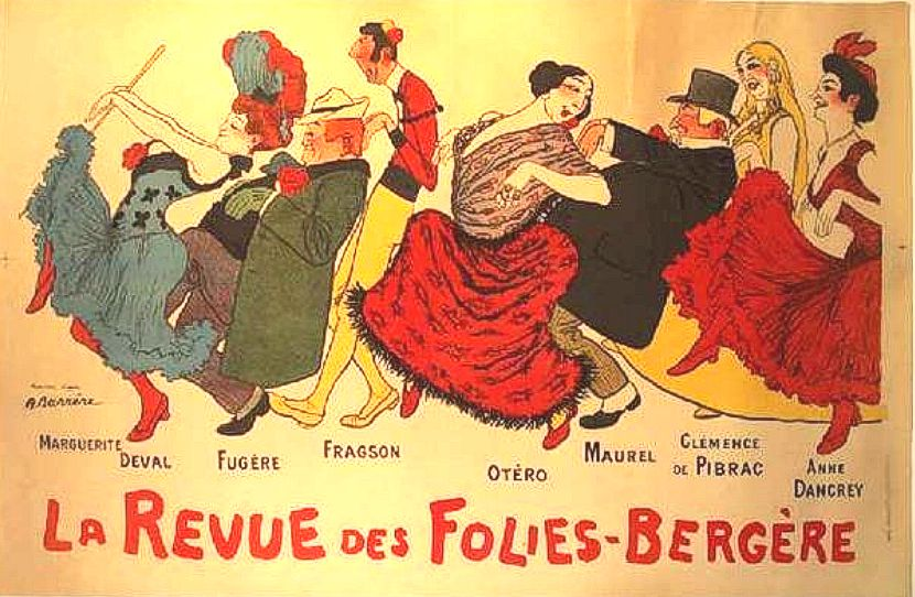 "La Revue des Folies Bergere"